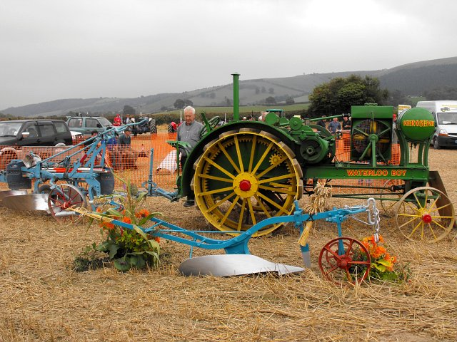 Waterloo Boy tractor produced by John Deere, 1919-1920. John Deere took over the Waterloo Boy Company in 1918. Model N, overhead valve, two cylinder 750rpm engine. 25hp drawbar. Two forward gears and one reverse. The tractor has a small petrol tank, used for starting the engine and a larger tank (at the front) for paraffin to run it. England lies beyond the hill in the background.